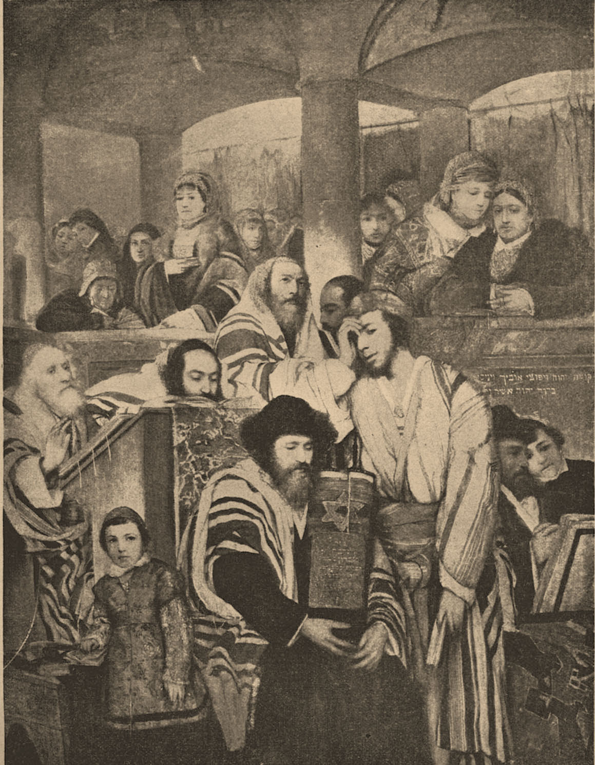 Illustration from Brockhaus and Efron Jewish Encyclopedia (1906—1913)